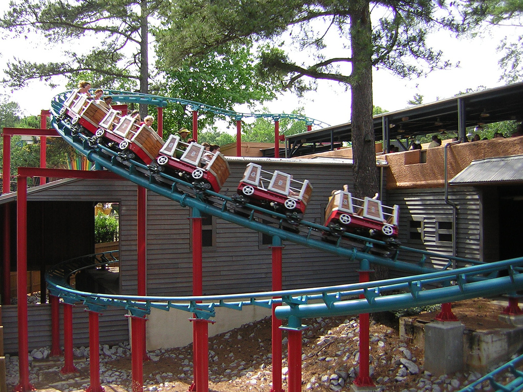 Wile E. Coyote Canyon, junior roller coaster at Blaster Six Flags Over Georgia, USA.